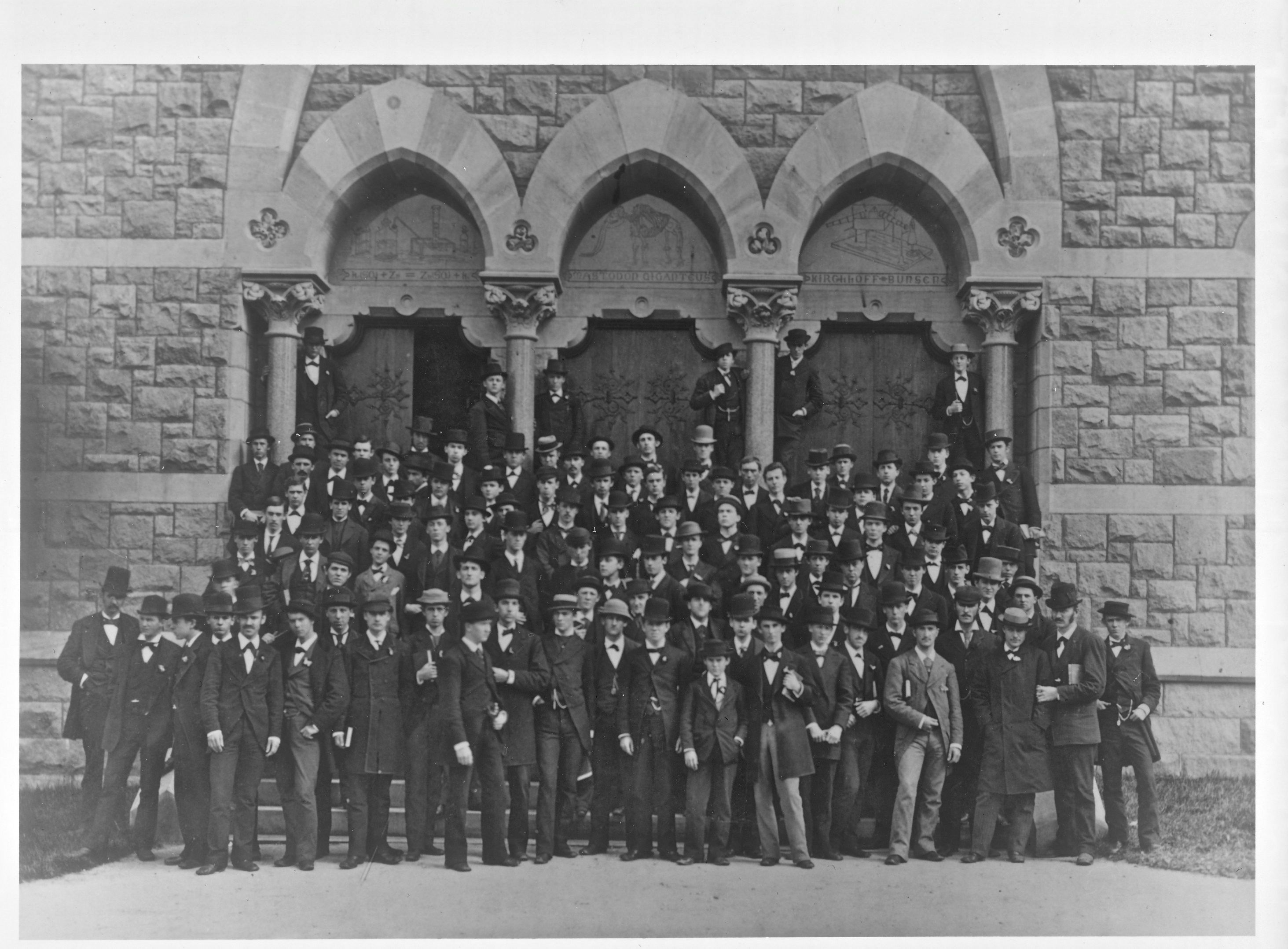 A photograph of the Princeton University Class of 1879 on the steps of the John C. Green School of Science